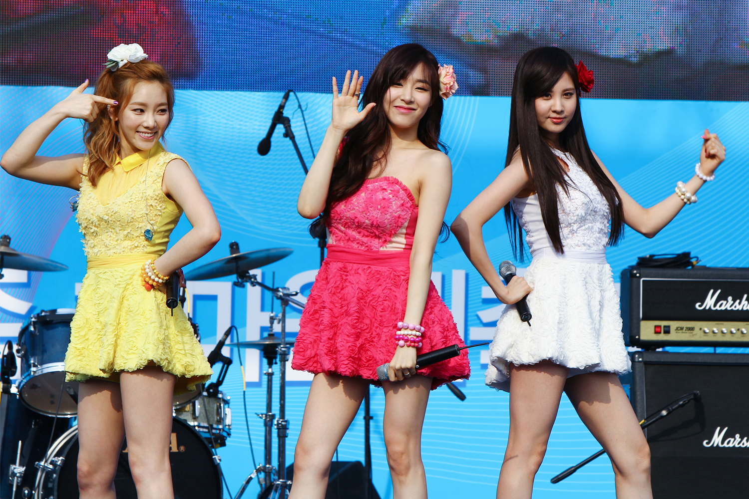 TaeTiSeo on 25 May 2013